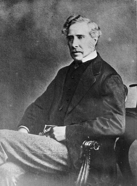 Sir George Grey, taken circa 1875